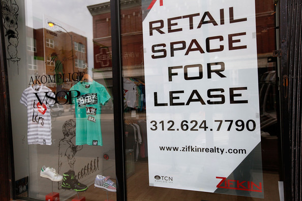 Retail Lease In Chicago markets